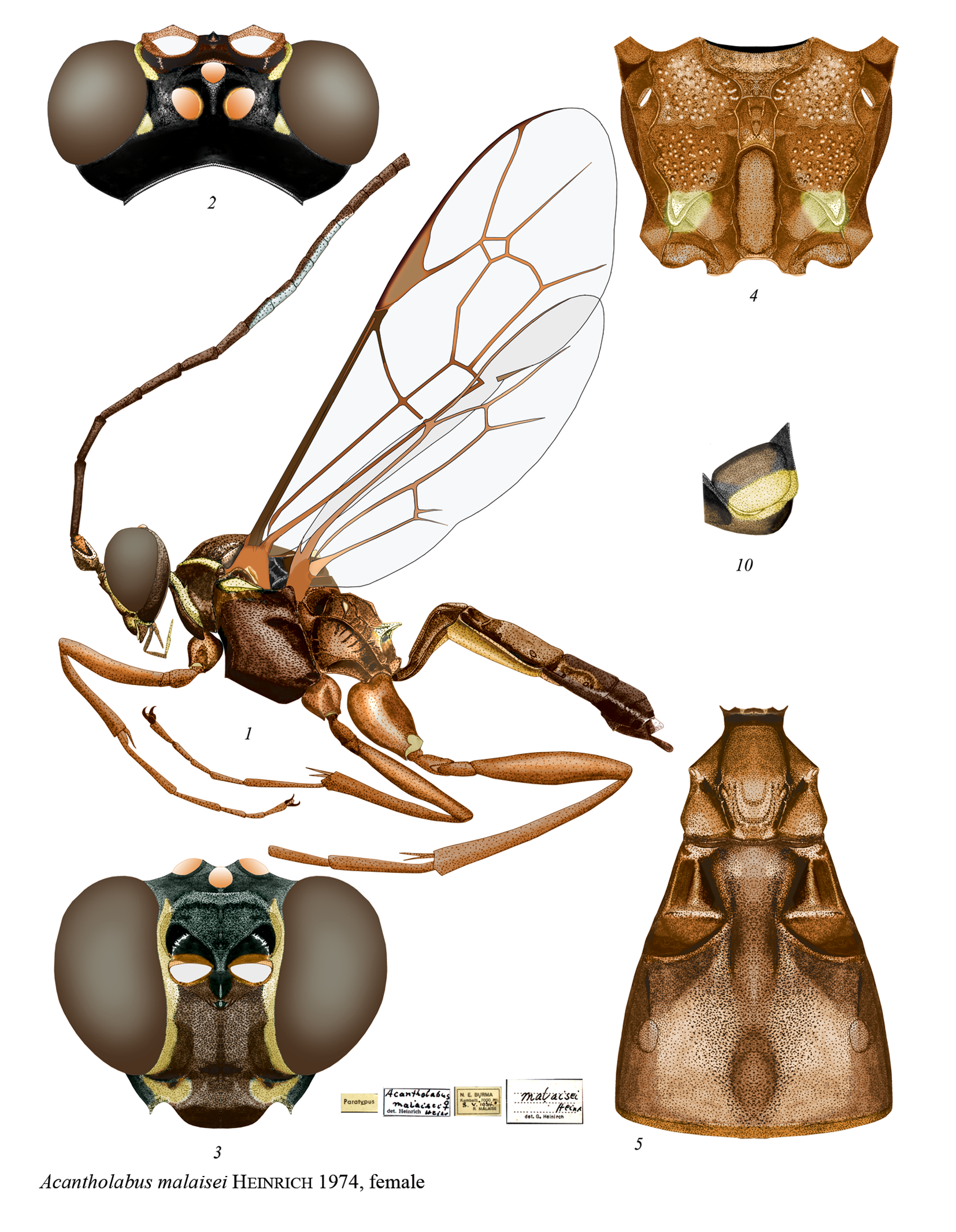 Acantholabus malaisei